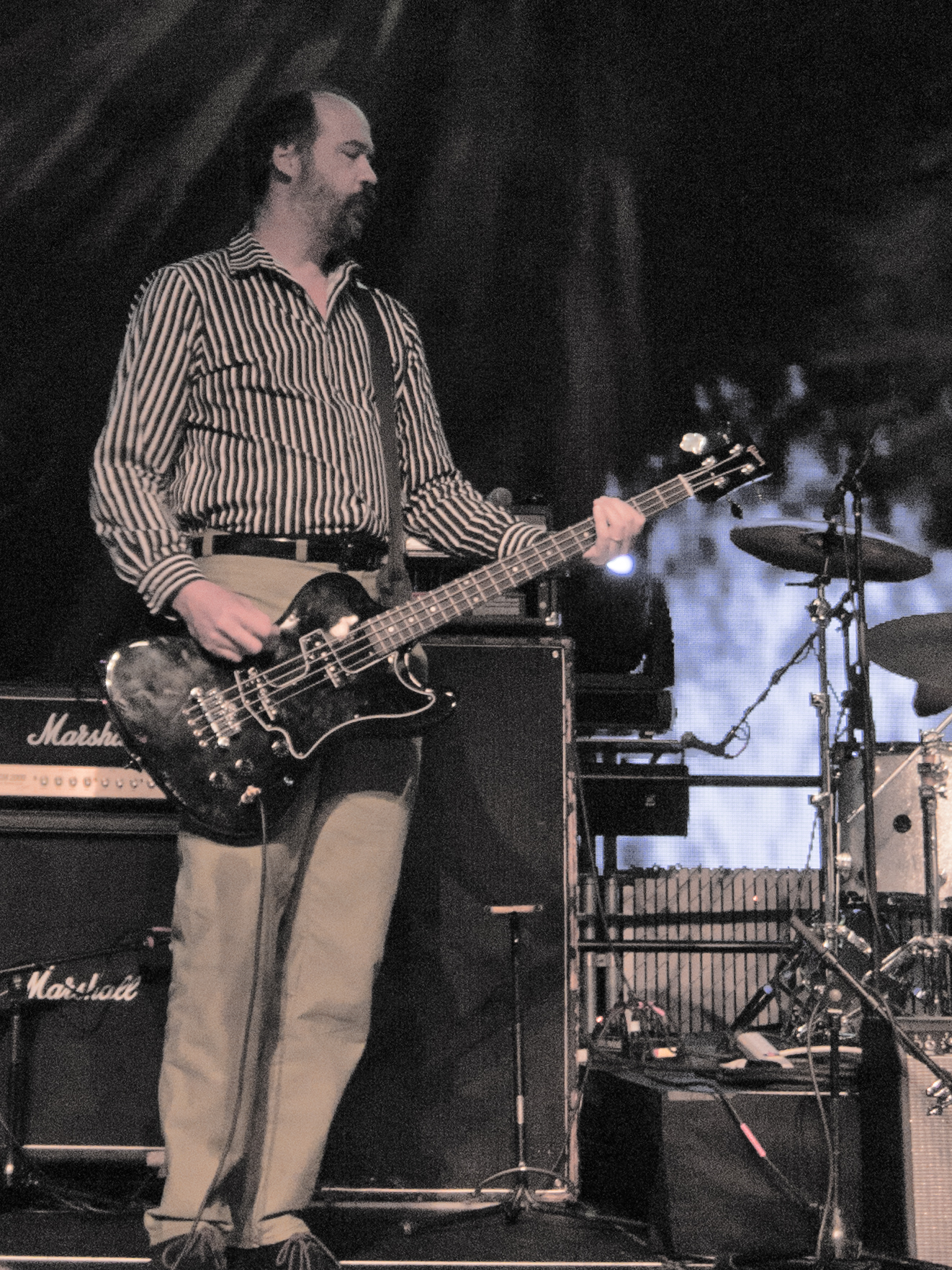 Krist Novoselic performing at the "Nevermind 20 Years Celebration at the EMP" on the 21st of September 2011.